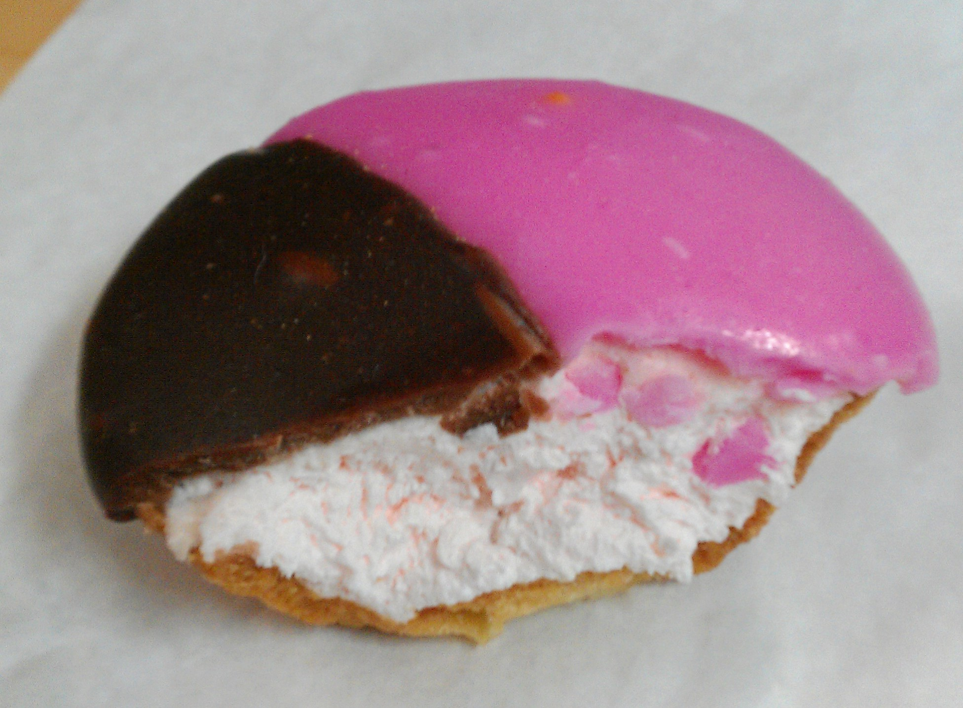 An Australian 'Neenish Tart' in traditional colours (pink and brown) with a bite taken out of it.